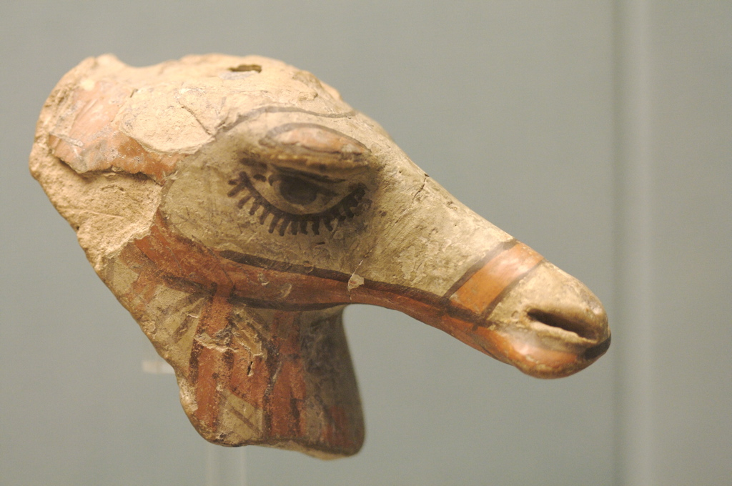 I had a wonderful day at the British Museum with CoryQ (of MonkeyRiverTown) and his wife Mary. These are everything I shot that day, unedited and uncleaned, except for shrinking them some to spead up the upload.